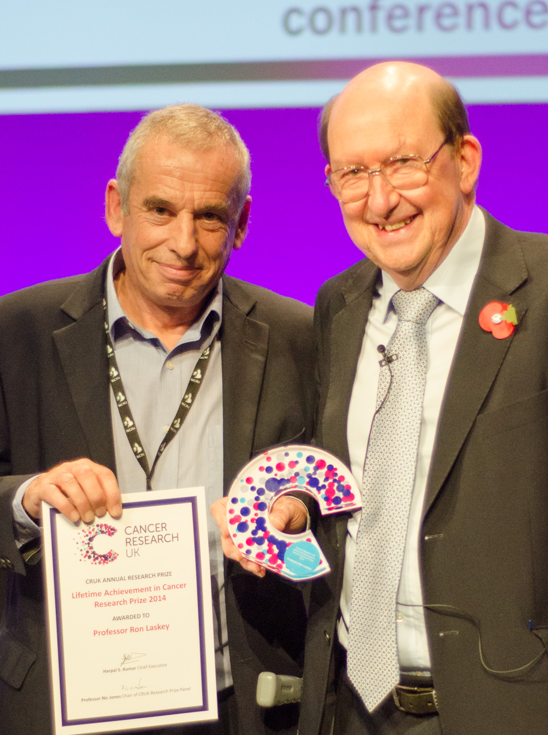 Ron Laskey receiving a Lifetime Achievement Award from Cancer Research UK Chief Scientist Prof Nic Jones.